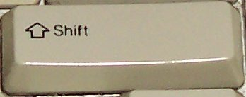 Shift key on PC keyboard